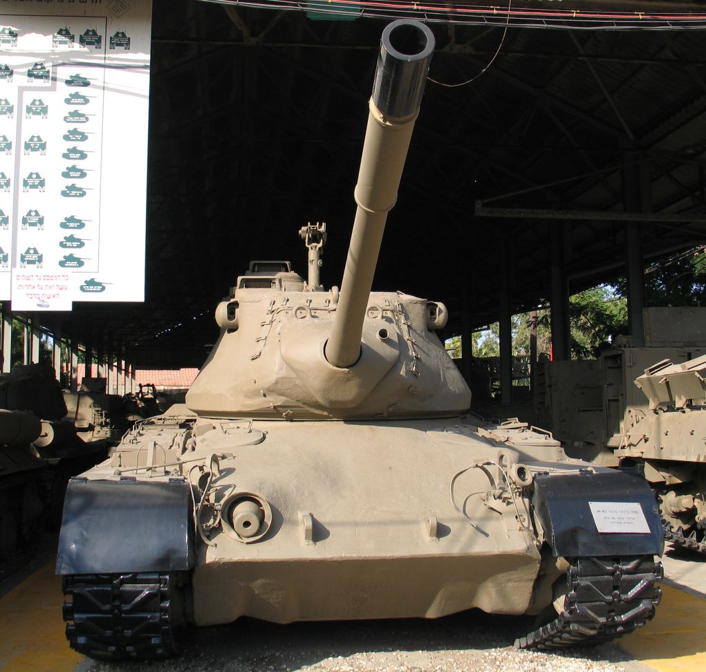 Description: M47 Patton tank in Batey ha-Osef museum, Tel Aviv, Israel. 2005. Source: Photo by me, User:Bukvoed.